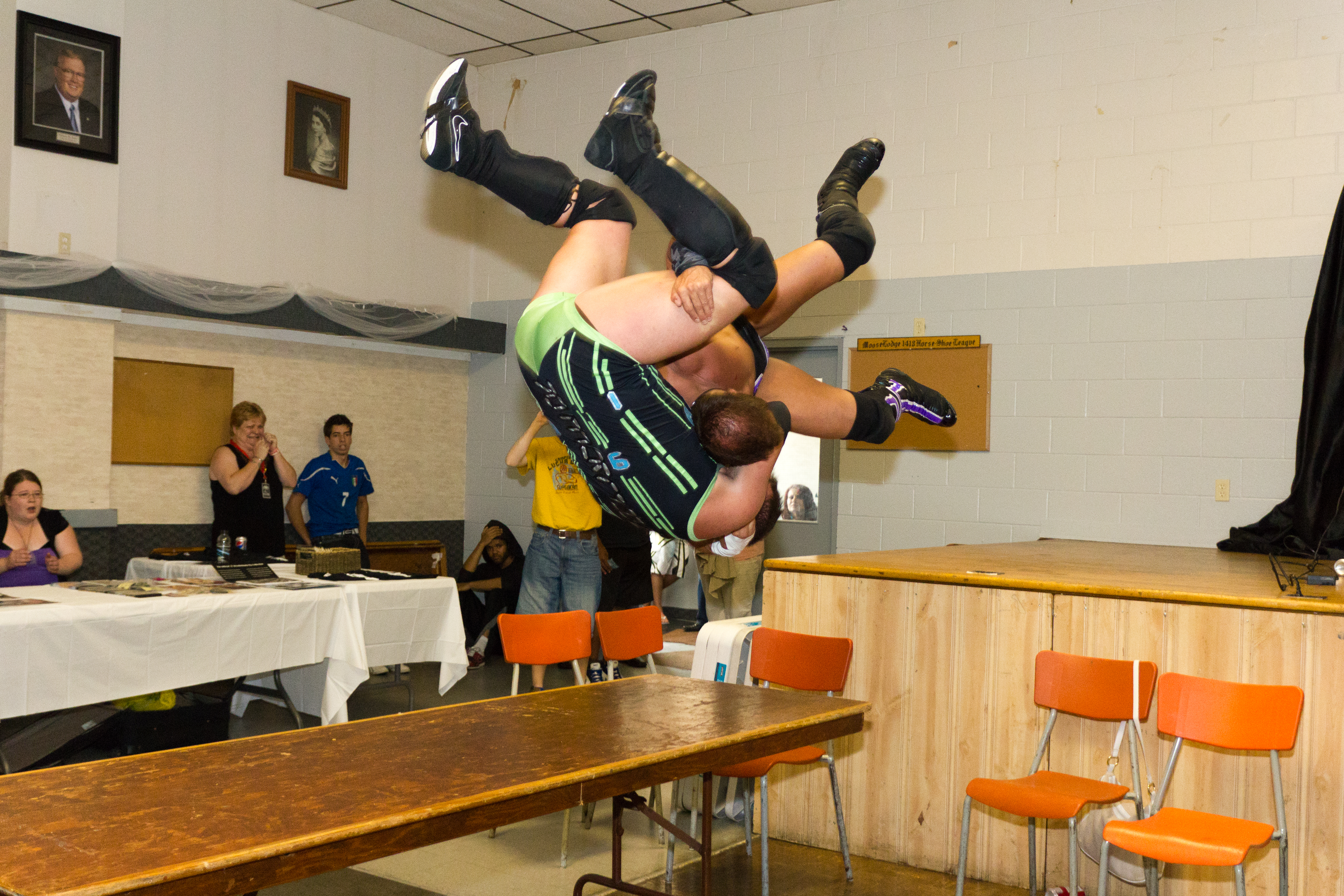 Wrestler "Dangerboy" Derek Wylde (in trunks) in the process of driving "Hacker" Scotty O'Shea (in singlet) thru a table.